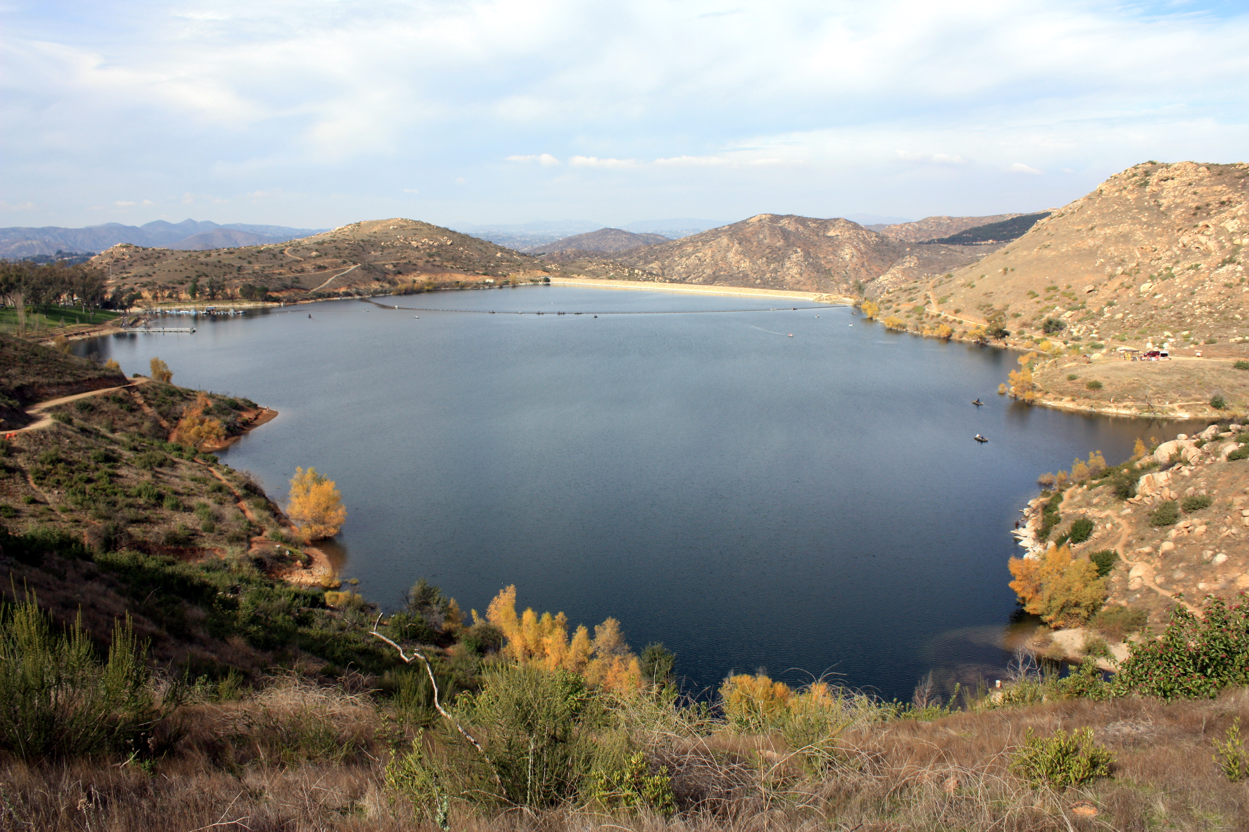 Lake Poway reservoir — in Poway, San Diego County, Southern California.